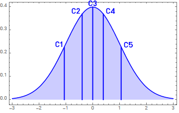 The cut-ponts of Brazil and Japan head-to-head in the normal distribution for calculation of the FIVB World Rankings.